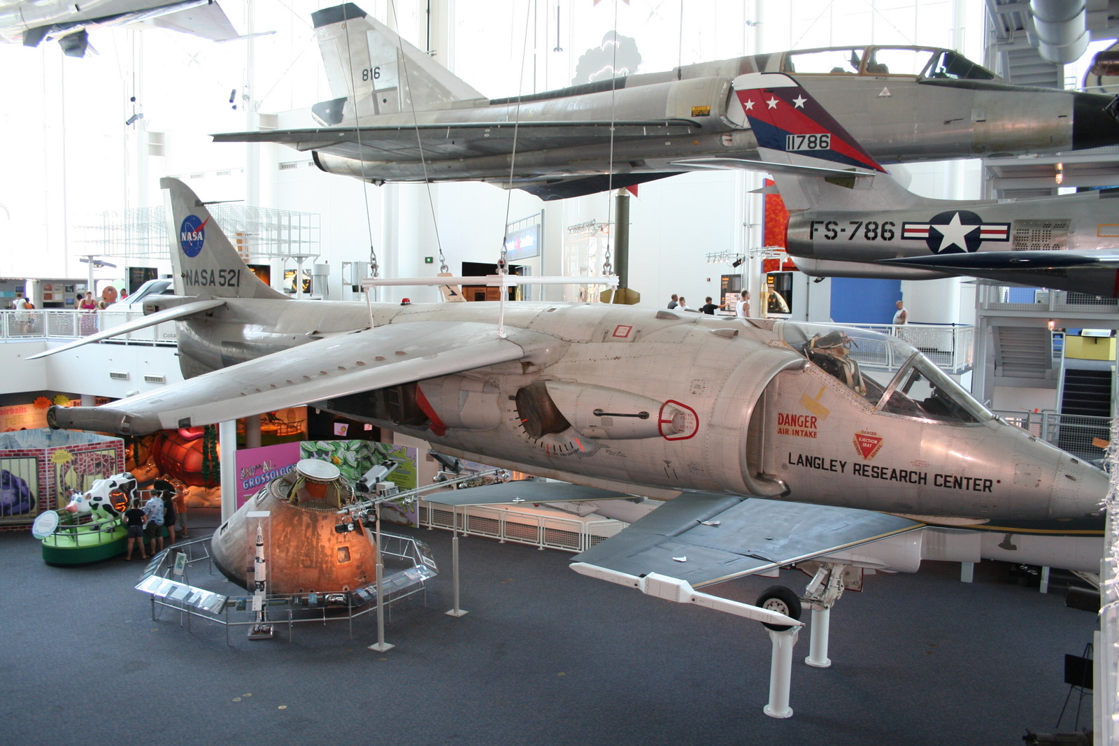 XV-6A Kestrel serial 64-18263 on display at the Virginia Air and Space Museum